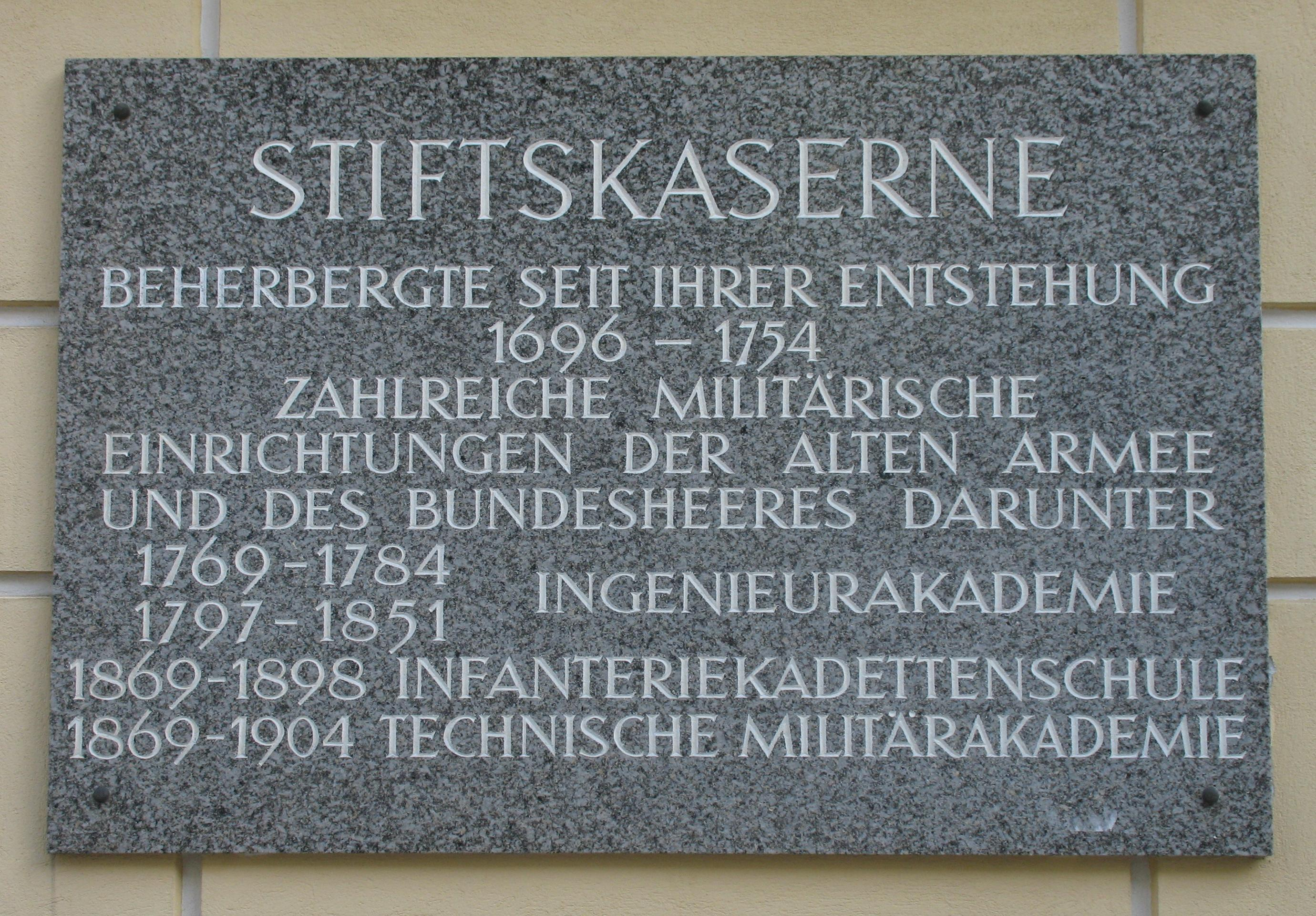 Memorial plaque in Vienna, Austria